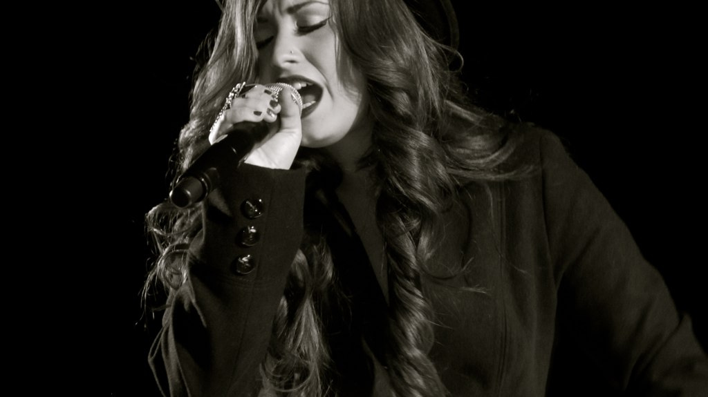 Demi Lovato: in December 2011.